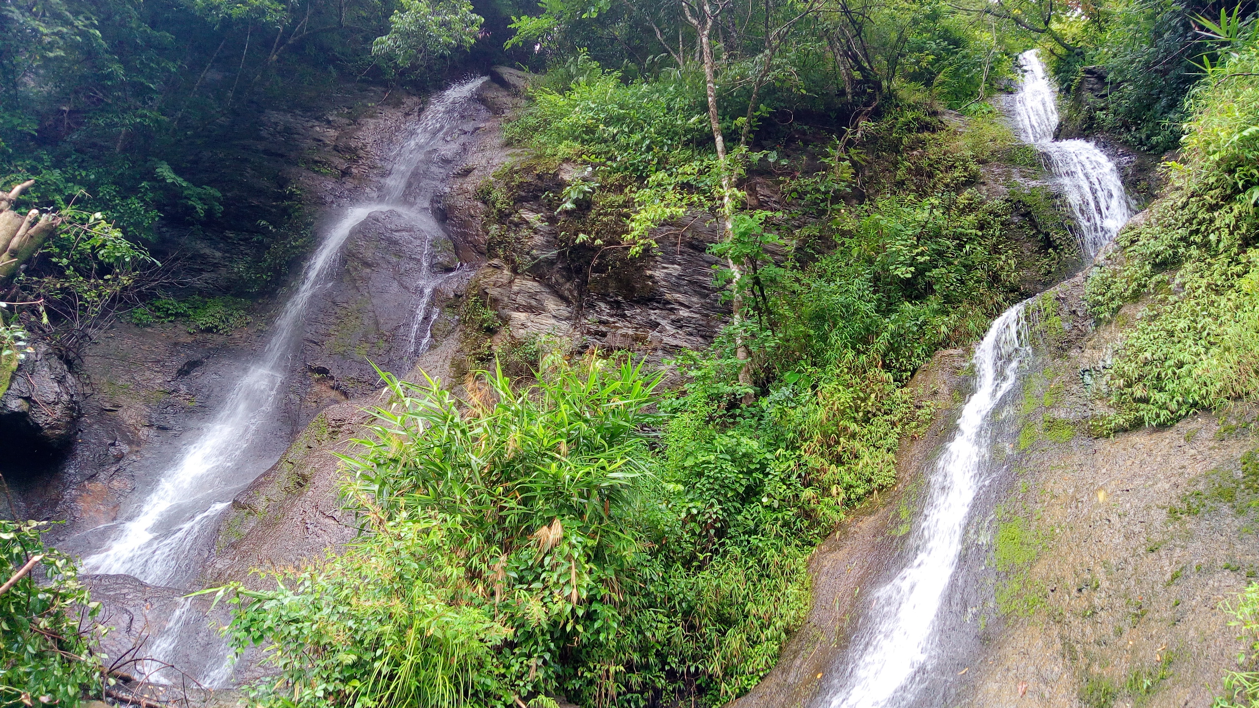 Taphou waterfalls are a series of three waterfalls that come alive during the rainy season! it is located in the forest of Taphou Kuki Village in Manipur.